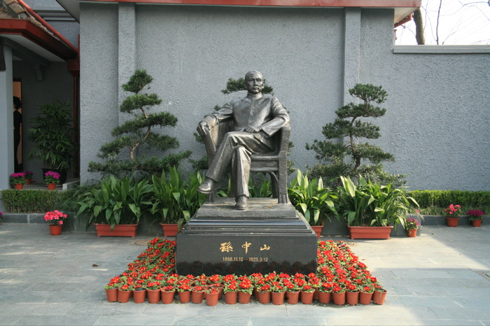 Statue of Sun Yat-sen at his home in Shanghai